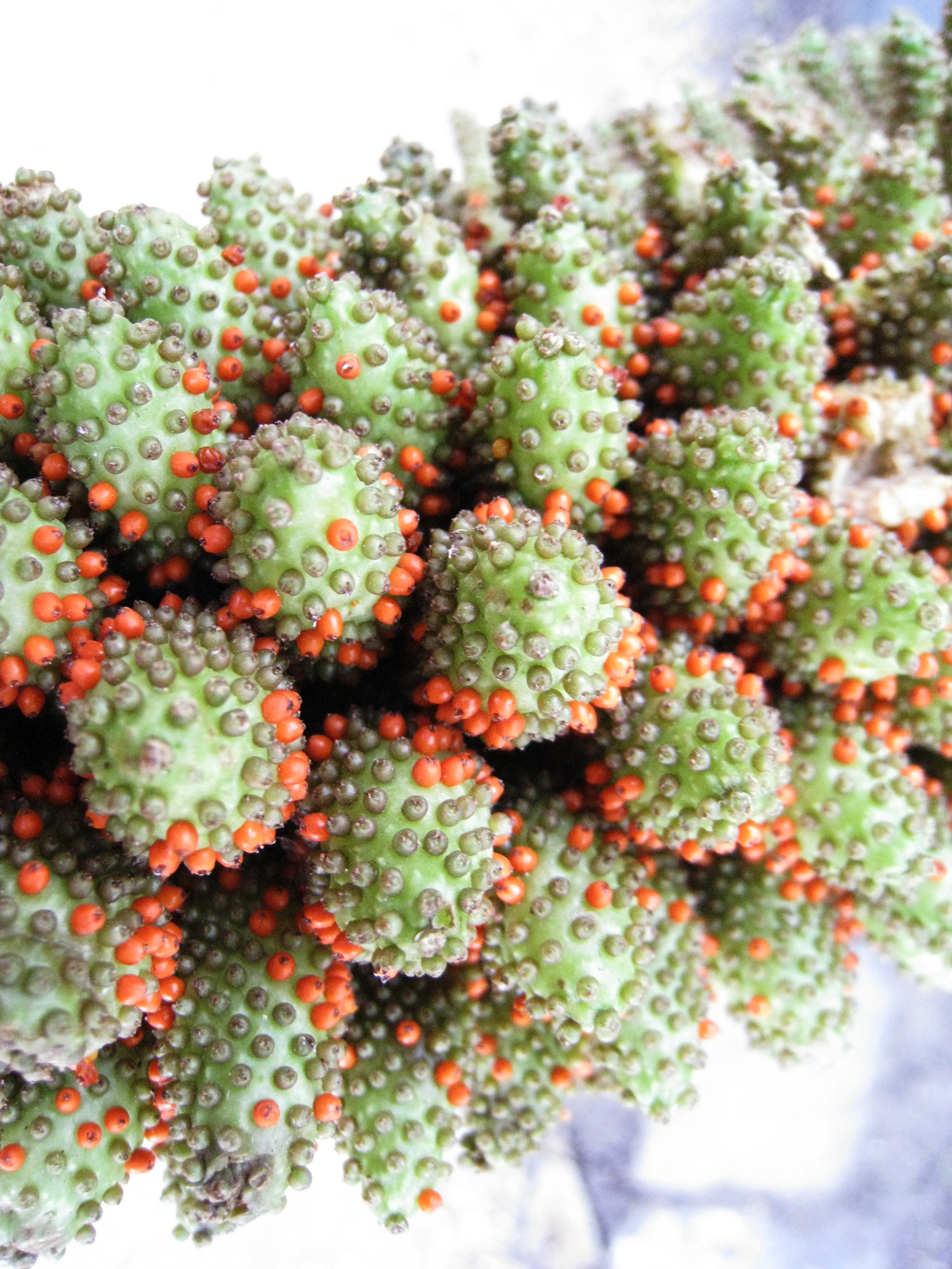 Specimen in cultivation at the Botanical Garden, University of Copenhagen, Denmark.